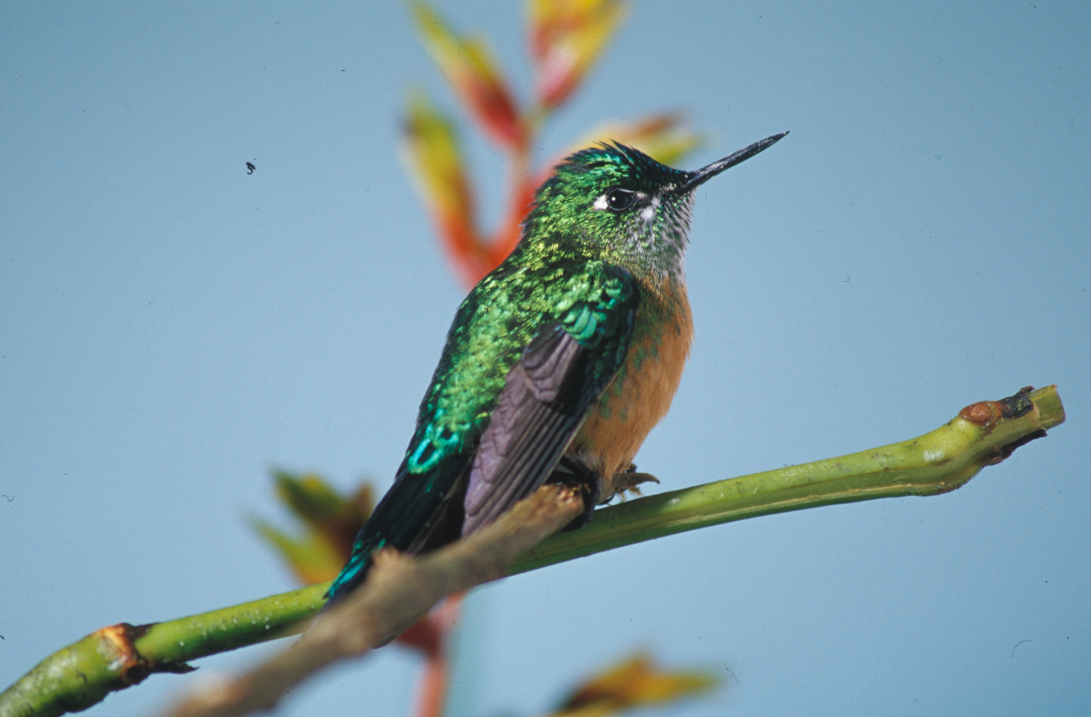 Long-tailed Sylph (Aglaiocercus kingi) from the NBII Image Gallery. A female photographed in Cordillera del Cóndor, Ecuador.